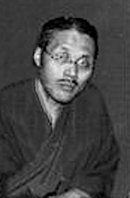 Writer Kameo Chiba (1878–1935)